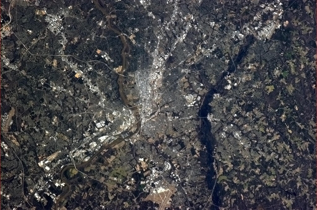 "Richmond, capital of the Commonwealth of Virginia. A vital crossroads for so much American history." Caption by astronaut Chris Hadfield on board the International Space Station.